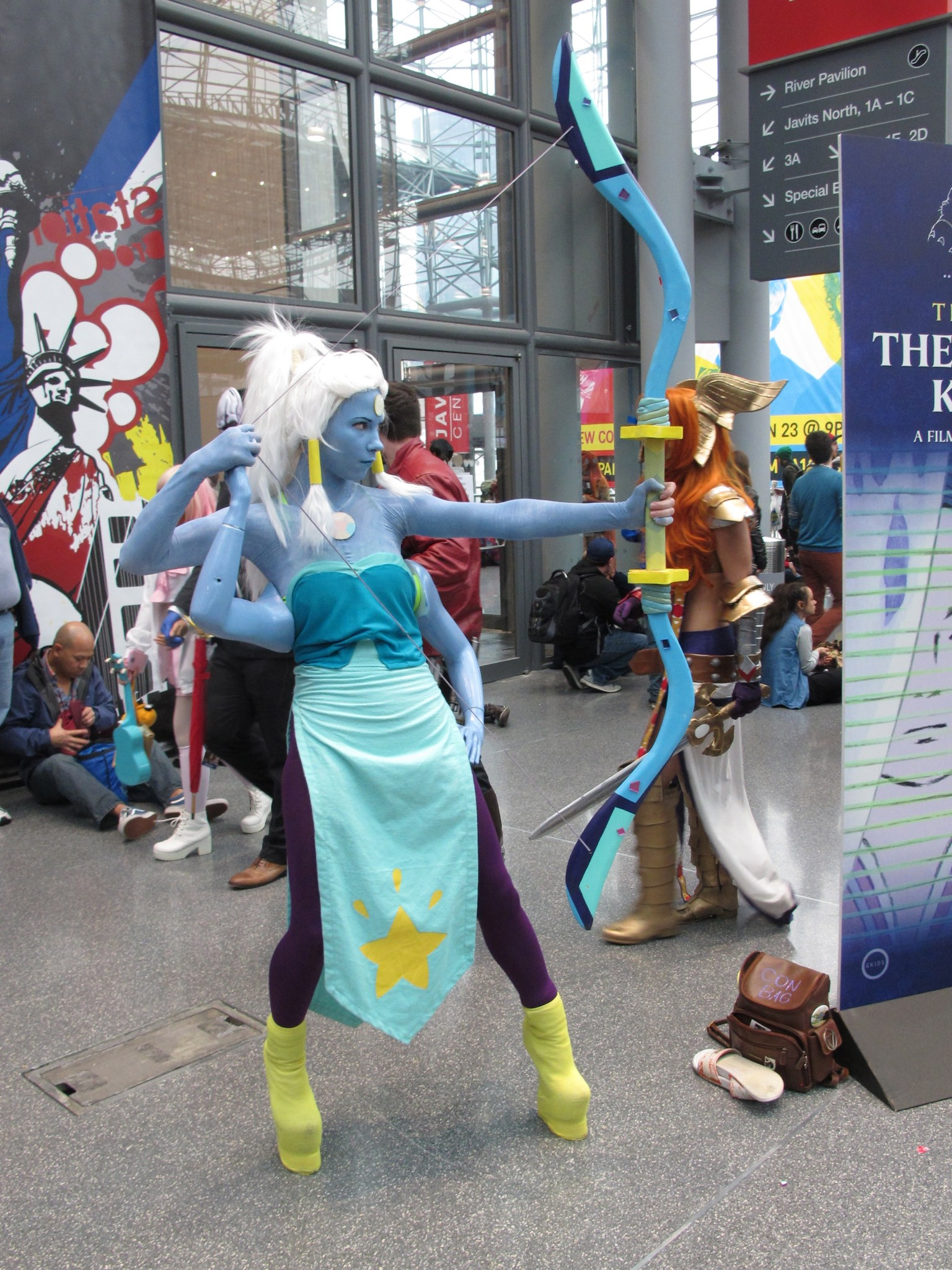 Cosplay at the 2014 New York Comic Con.